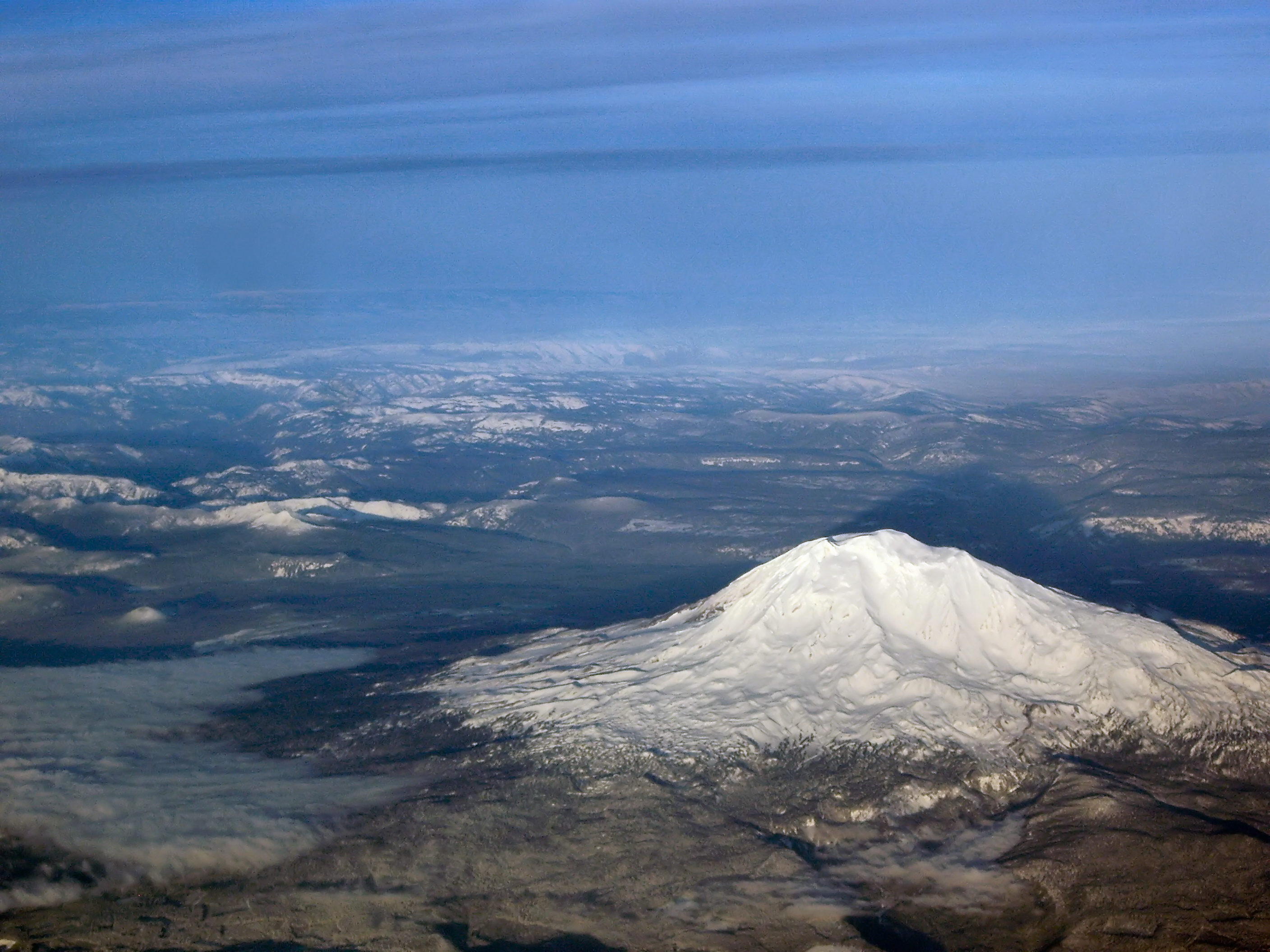 Taken from approximately 20,000 ft near sunset with a long shadow. Medicaster (talk) 19:49, 8 December 2007 (UTC)Medicaster